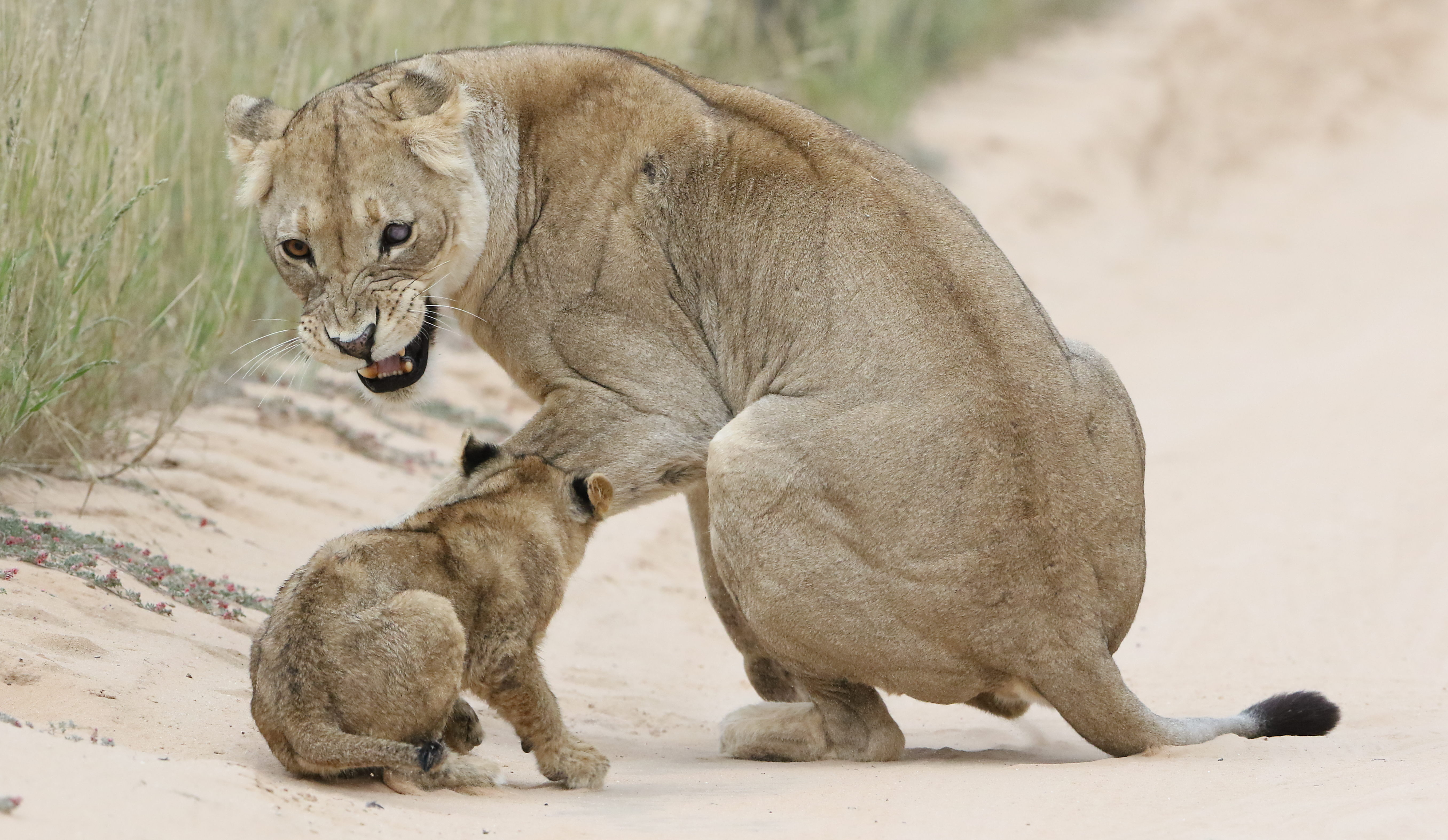 African lion, Panthera leo at Kgalagadi Transfrontier Park, Northern Cape, South Africa